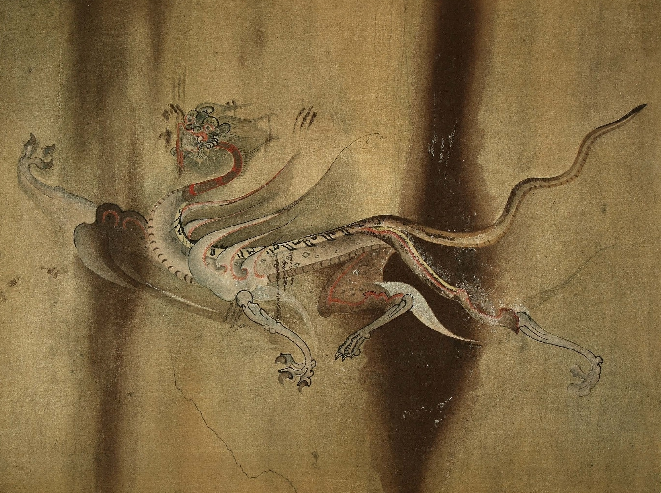 White Tiger(the mural of the Goguryeo Tomb)